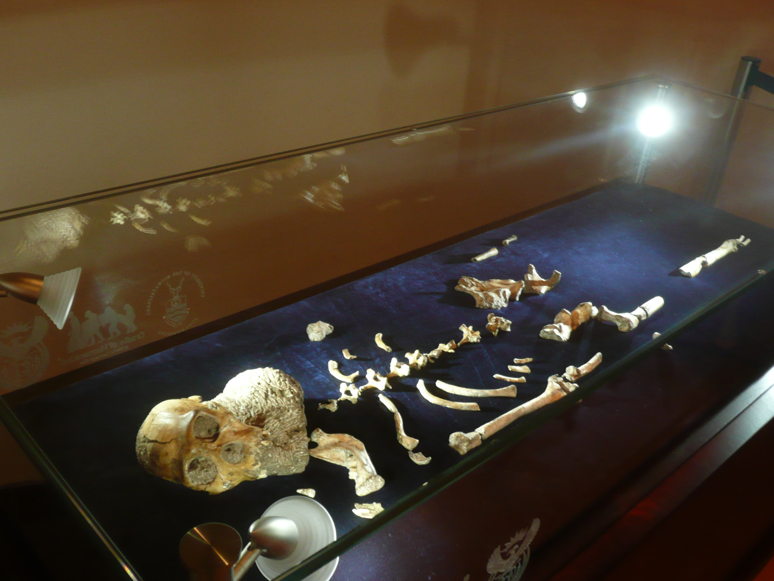 Australopithecus sediba, on display in Maropeng